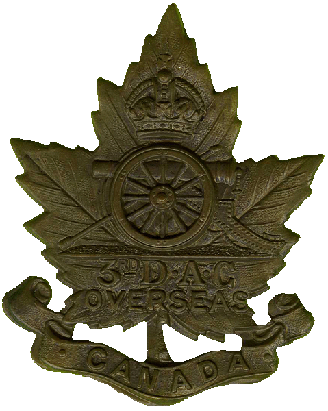 Hat Badge of The 3rd Divisional Ammunition Column CEF 17_3 Organized in December 1915, the 3rd Canadian Divisional Artillery Column arrived in England in March 1916 and served continuously until 11 Nov 1918 and into 1919.